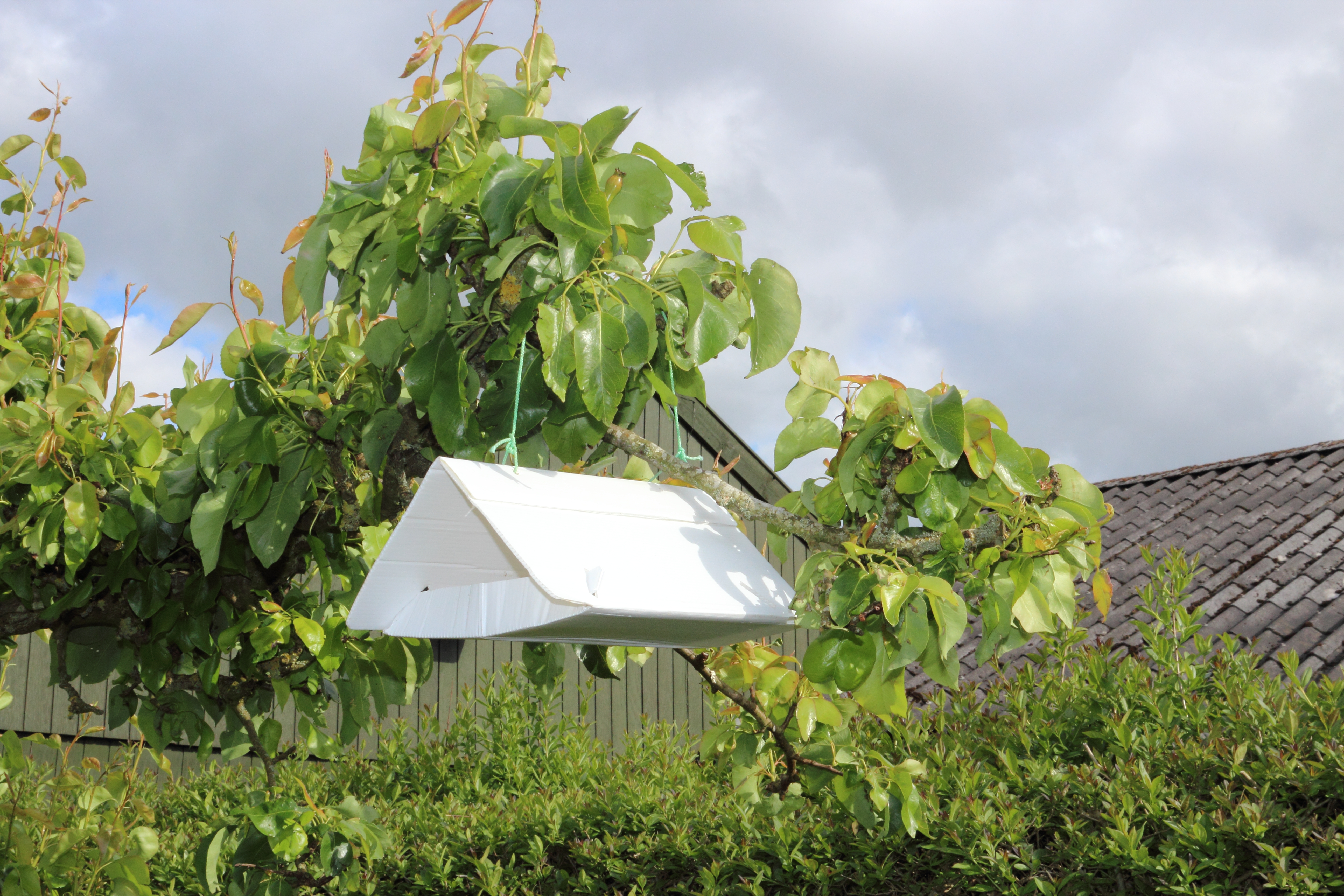 Pheromone trap for codling moth (Cydia pomonella)hanging in a pear tree in my garden close to Viborg, Denmark. Inside the trap, there is a plate with an adhesive and a capsule emitting codlemone, attracting male individuals.